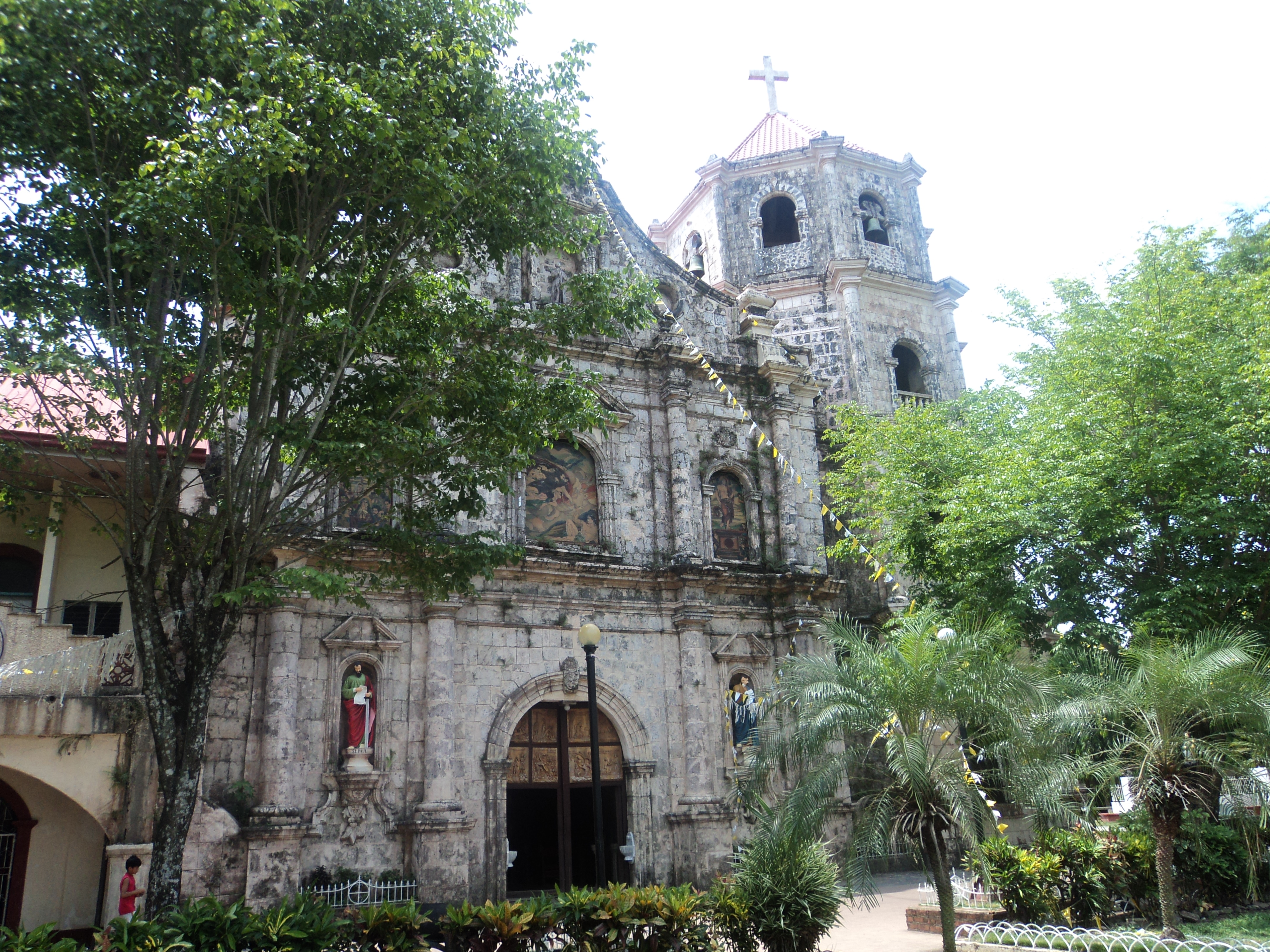 San Diego de Alcala Cathedral is considered as one of the biggest and oldest church in Quezon province. It is the seat of the Diocese of Gumaca.